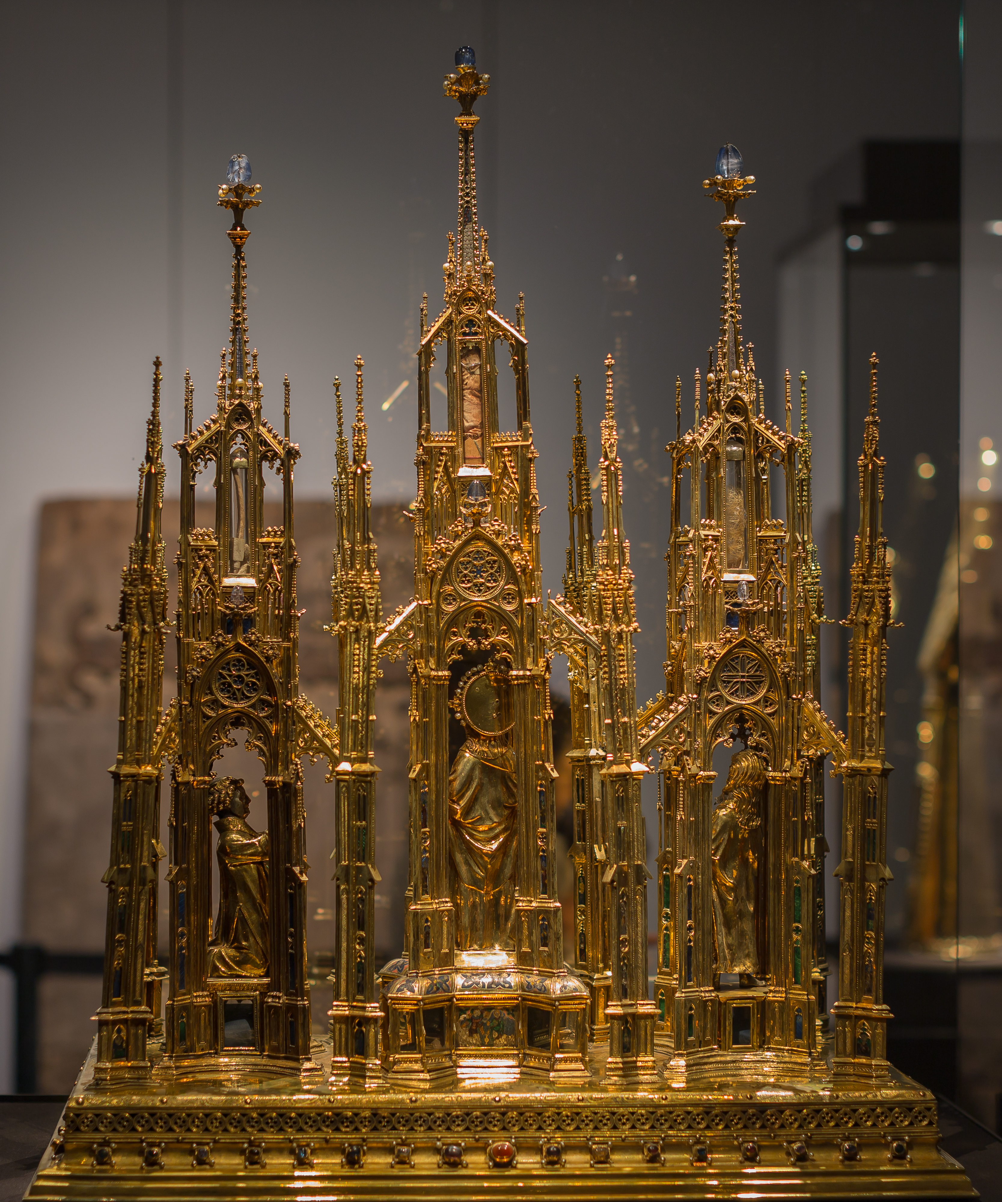 Three tower reliquary